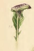 Stainton’s Natural History of the Tineina (1855–1873): Phyllonorycter scabiosella mined Scabiosa columbaria leaf